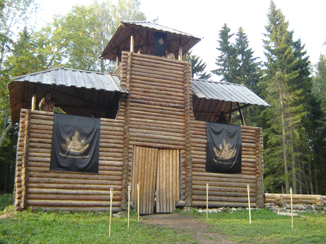 Reconstruction of Kassinurme hill fort